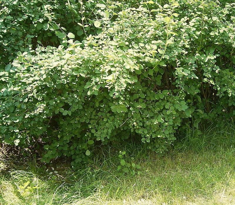 Symphoricarpos albus